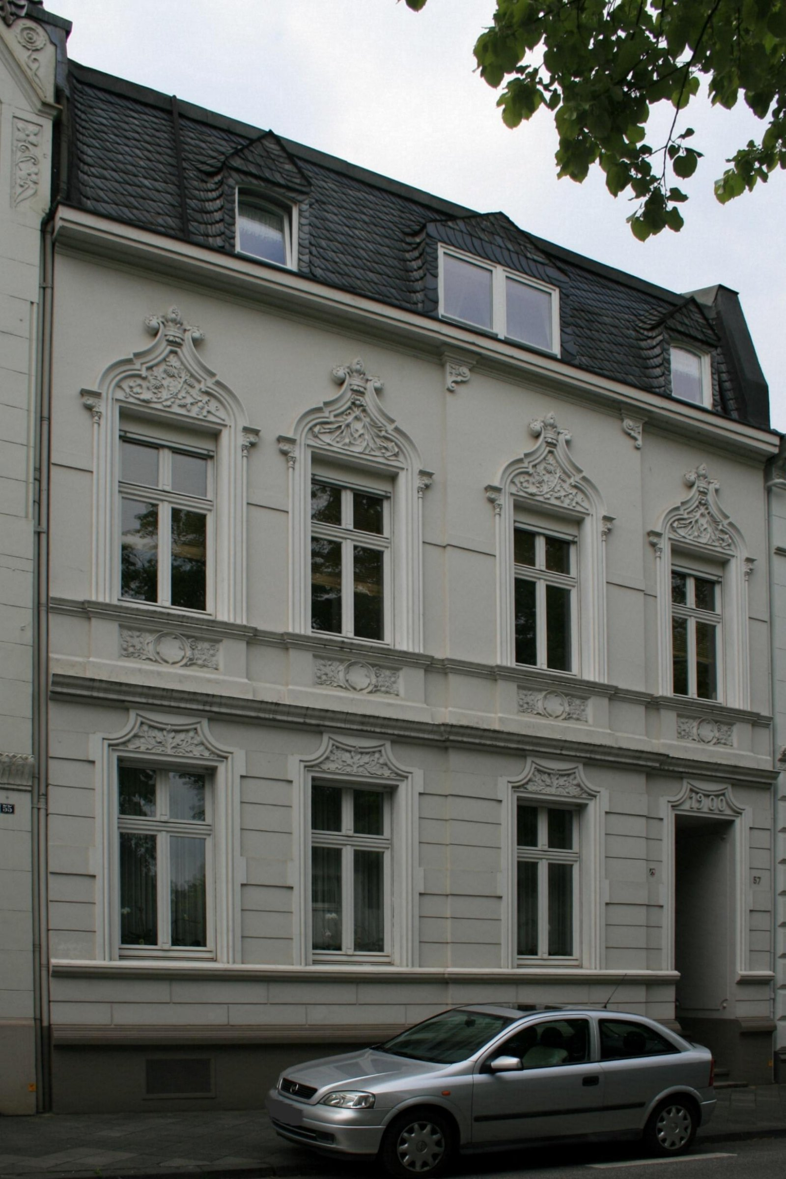 Cultural heritage monument No. B 148 in Mönchengladbach